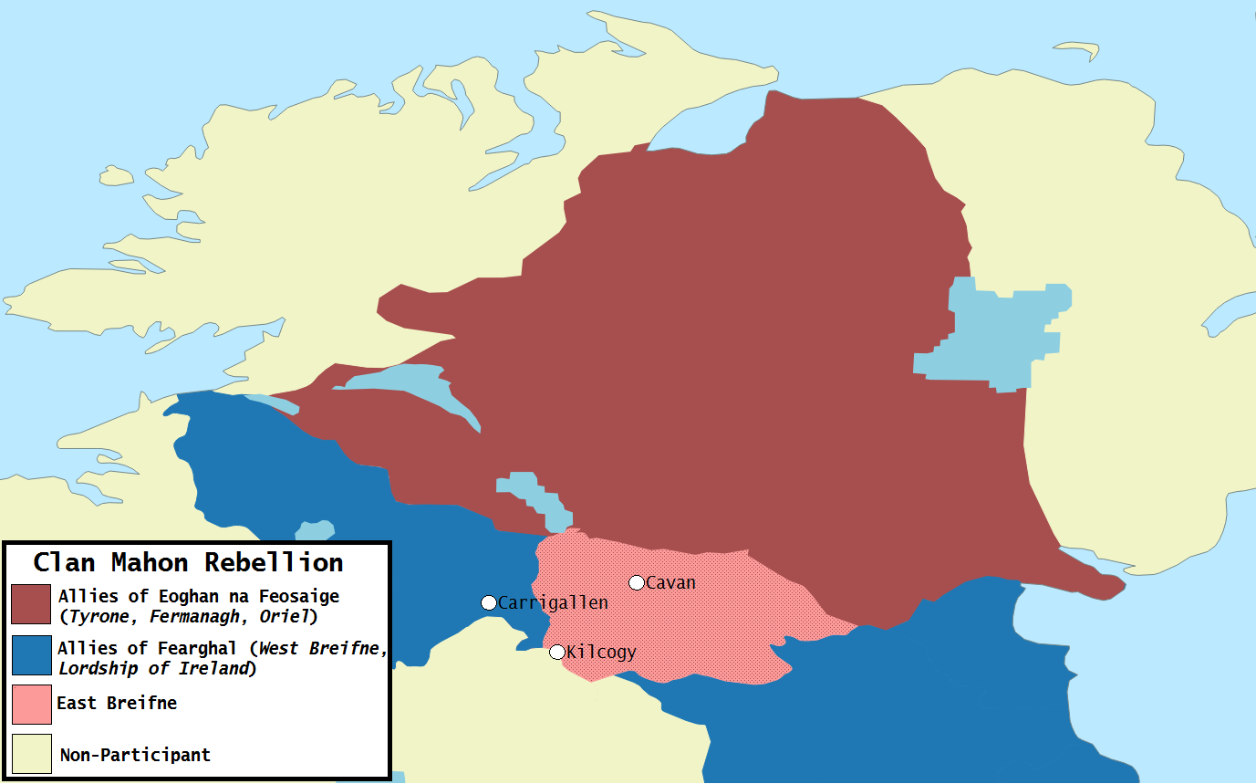 Map of Ulster and the aligned sides during a war of succession between two kings of East Breifne in 1430.